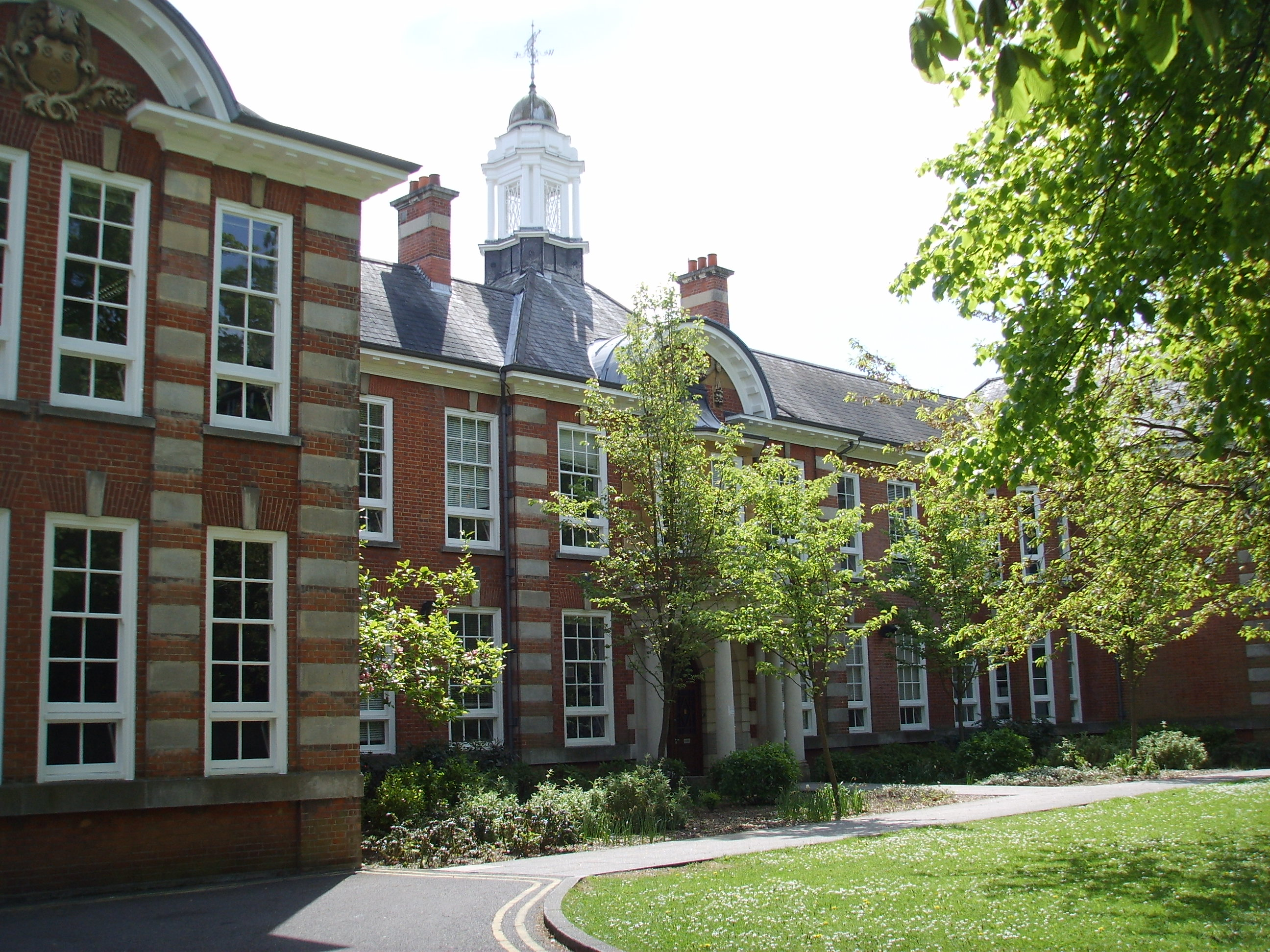 Front of Avenue Campus, University of Southampton